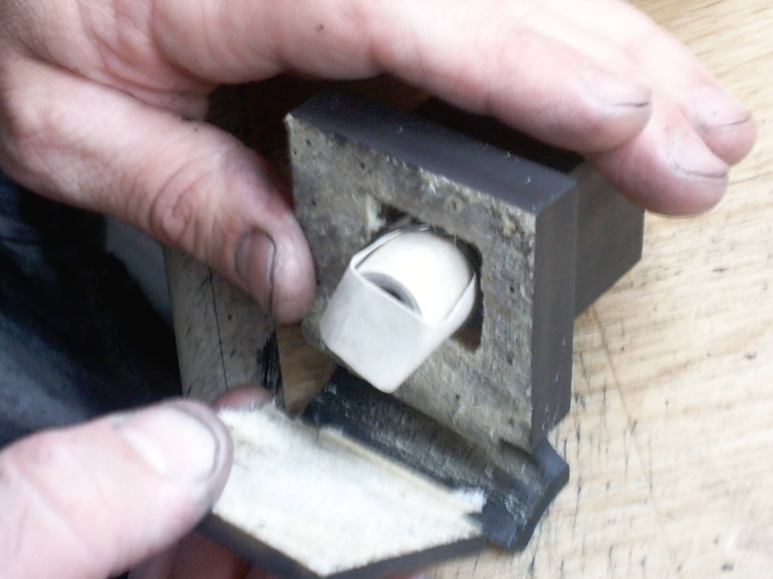 Tefillin